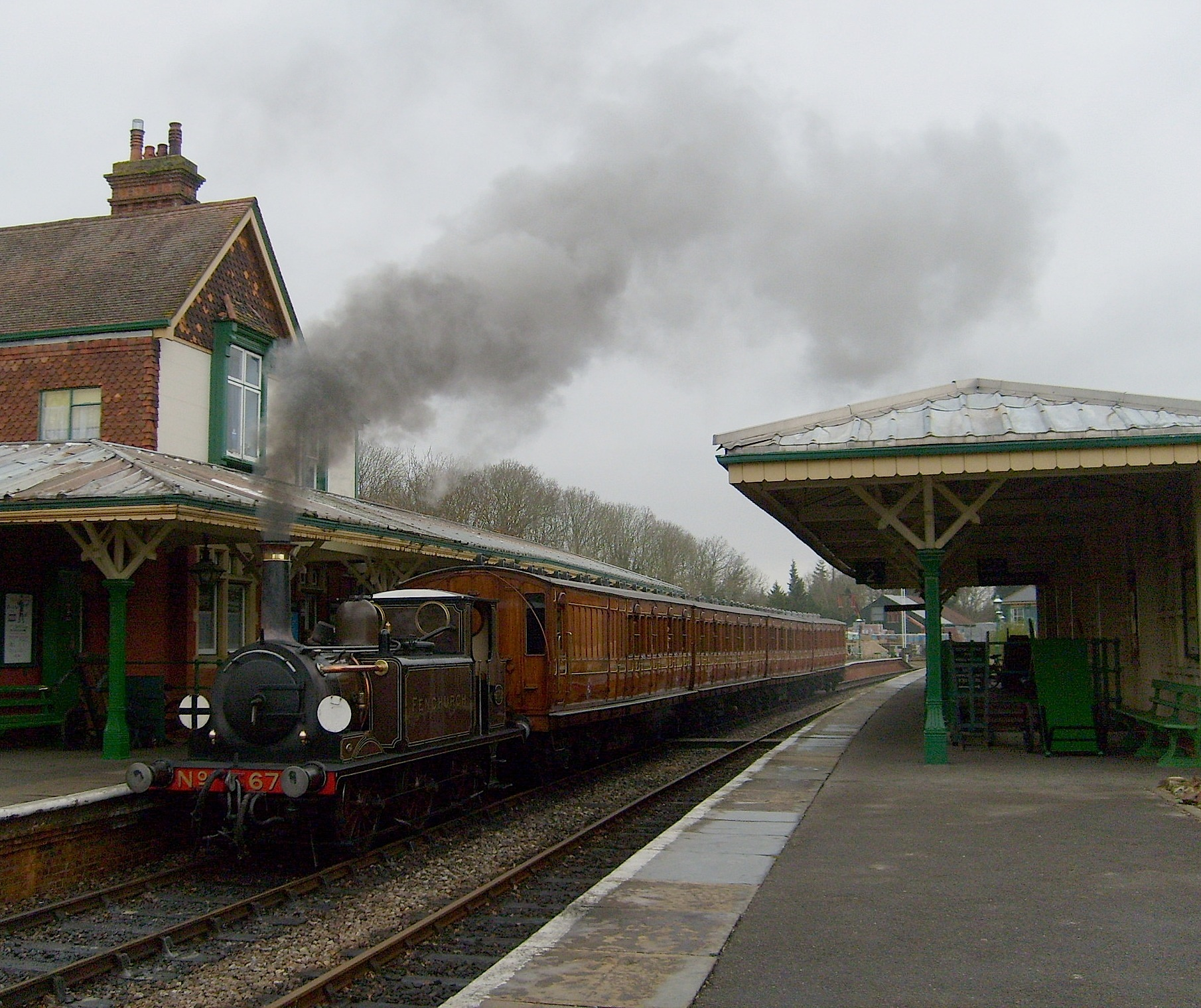 SECR 0-6-0T Terrier No. 672 'FENCHURCH' at the head of the Metropolitan Railway Chesham carriages. The photograph was taken at Kingscote station.